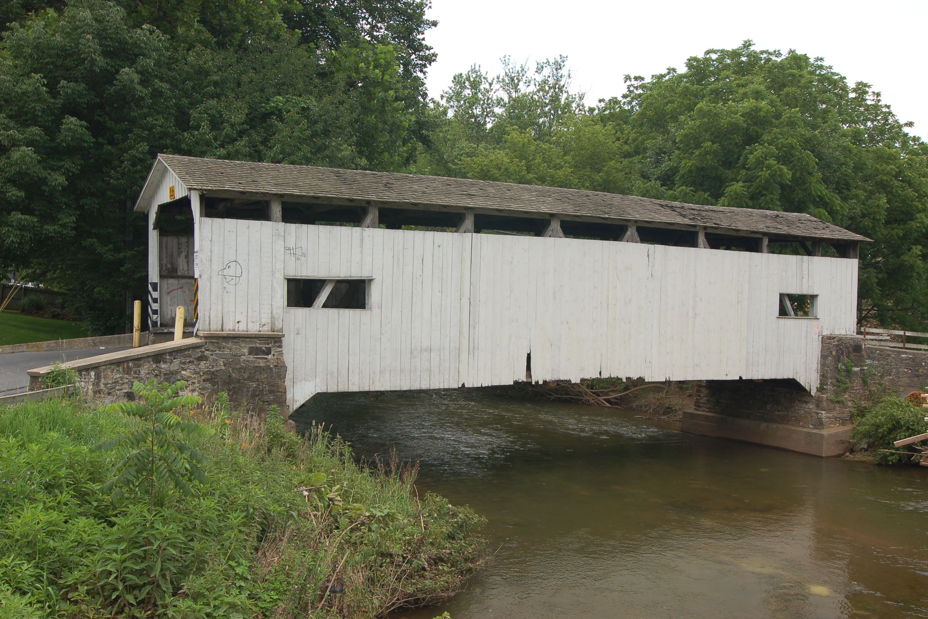 A photograph of side of the Keller's Mill Covered Bridge located in Lancaster County, Pennsylvania.